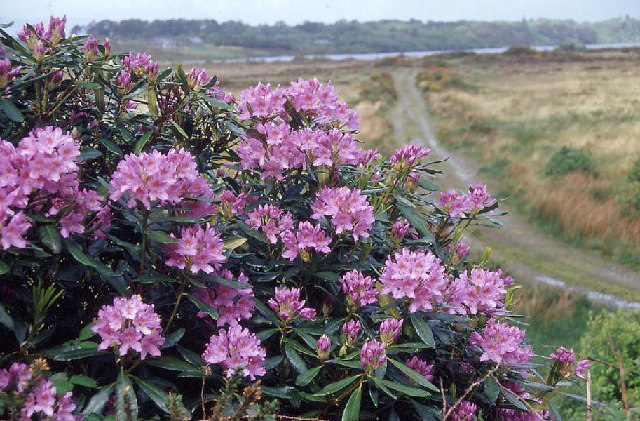 South side of Lough Caragh, near Killarney. Rhododendron ponticum is self-seeding here too; pretty, but ... a weed.